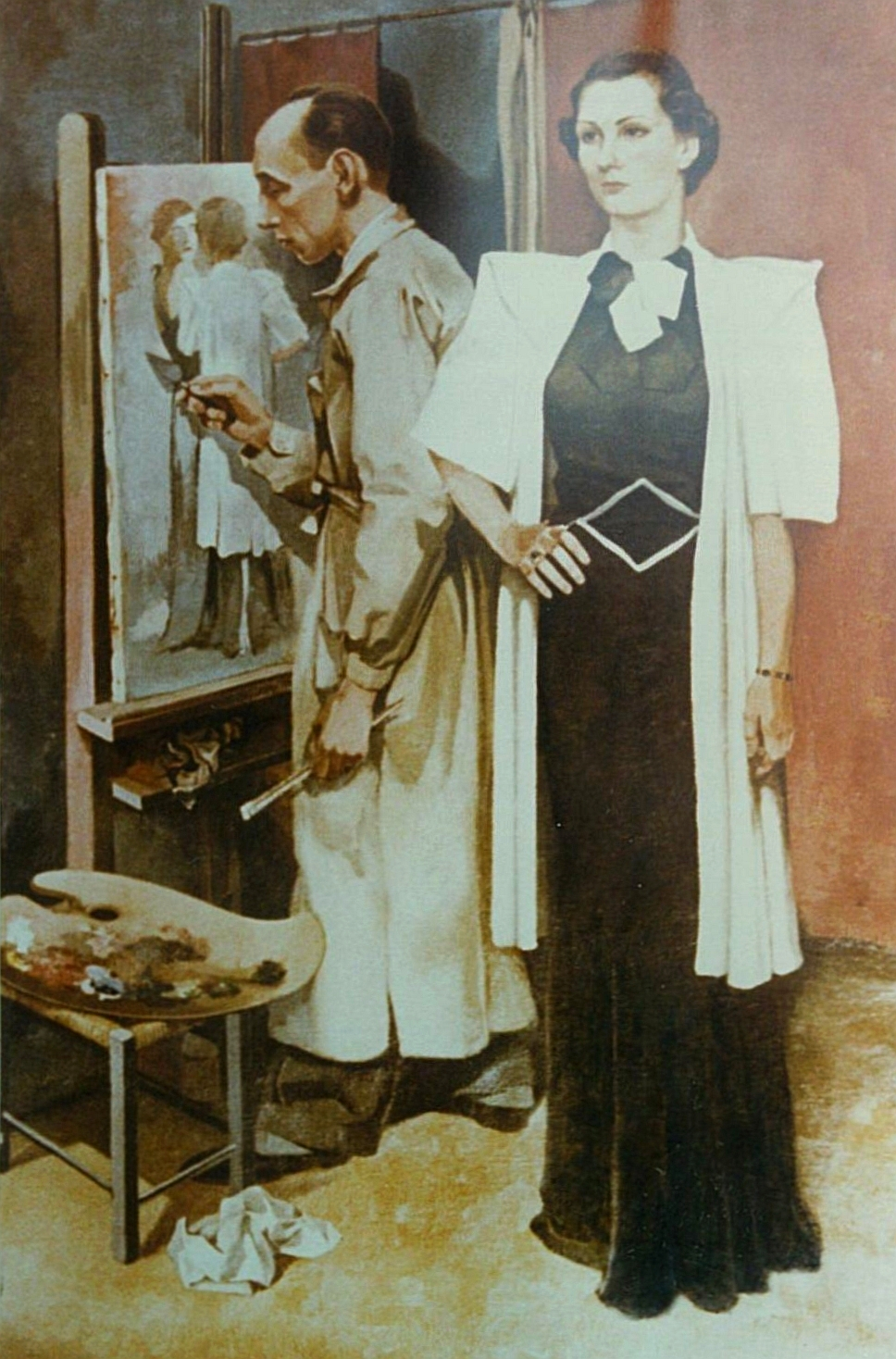 Oil painting Self portrait With First Wife (Selbstportrait mit erster Frau) by German artist Gustav Hilbert, 1938.